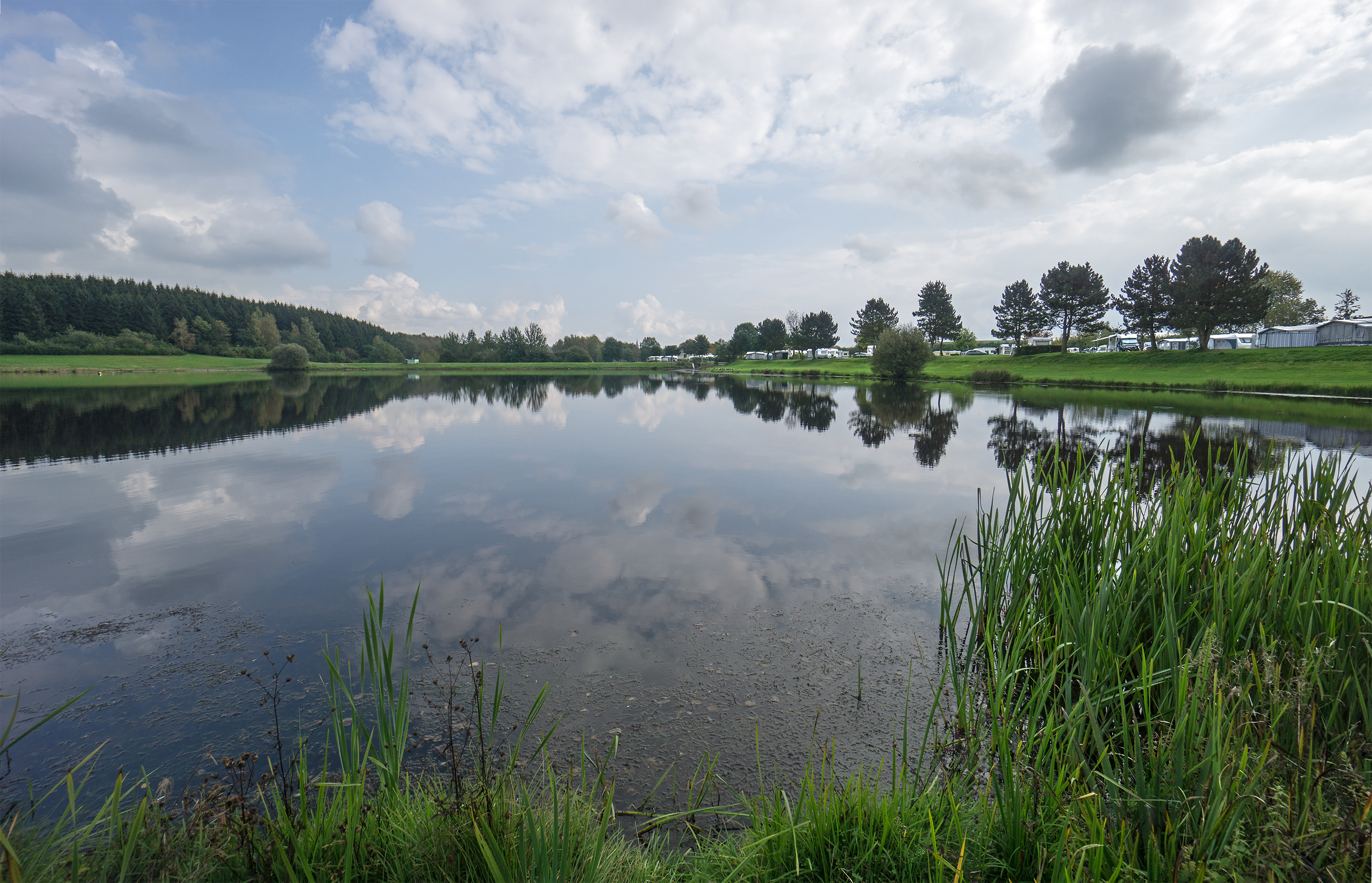 The superior lake of Weiswampach